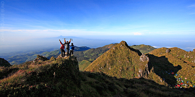 Mt. Apo terrain.